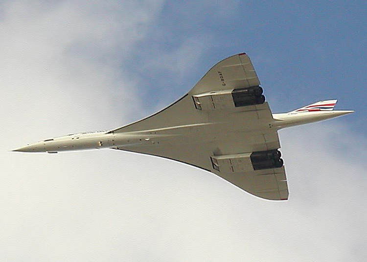 The last ever flight of any Concorde, 26th November 2003. G-BOAF is overflying Filton airfield at two thousand feet to take a wide circuit over the Bristol area before the final landing on the Filton (Bristol) runway from which she first flew in 1979.